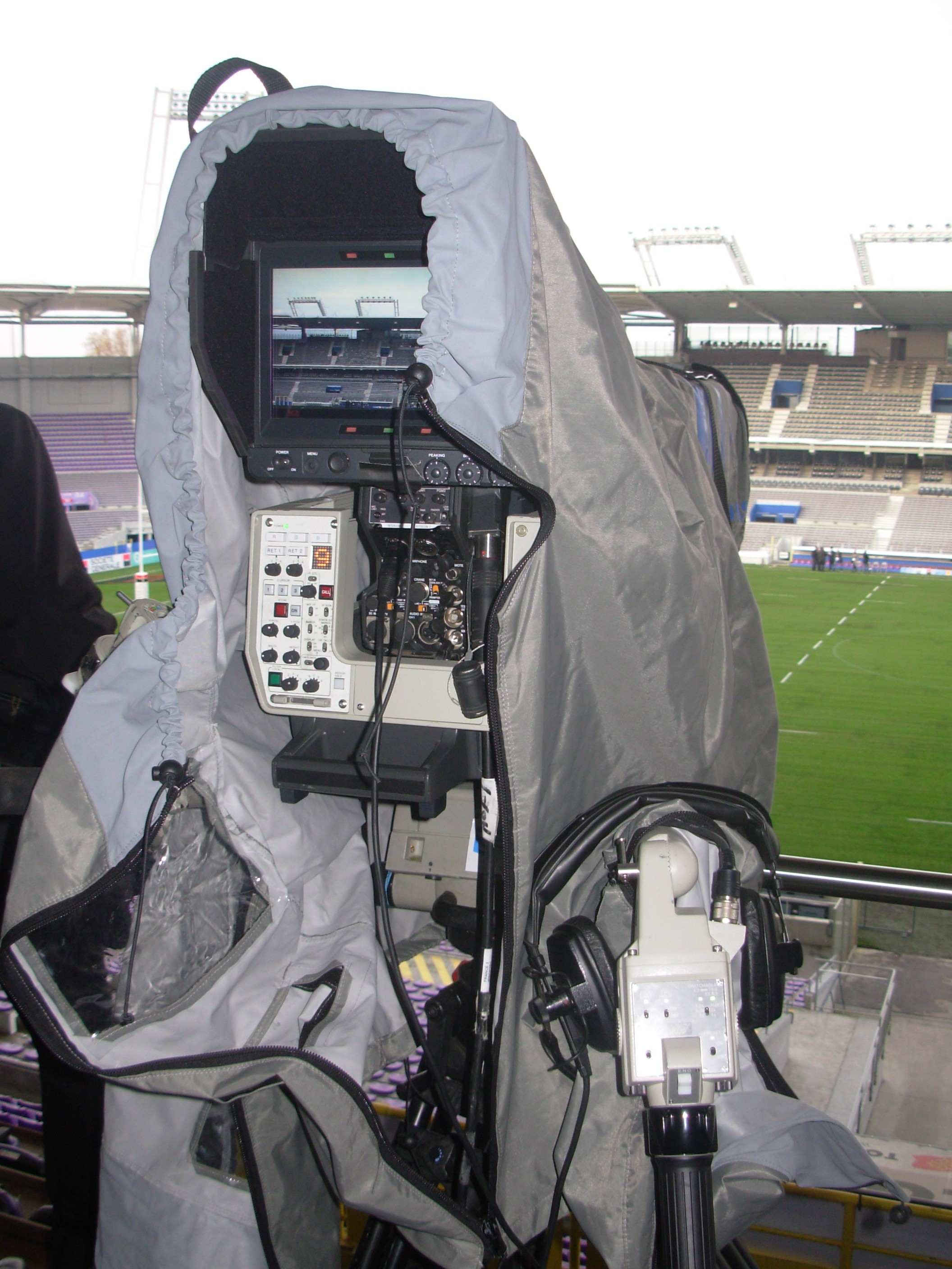 Video camera from France Télévisions.